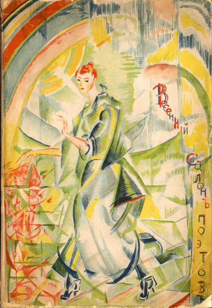 G. Yakulov. Cover of the book "Spring Salon of Poets" Lithography in five colors. 19 × 13 cm